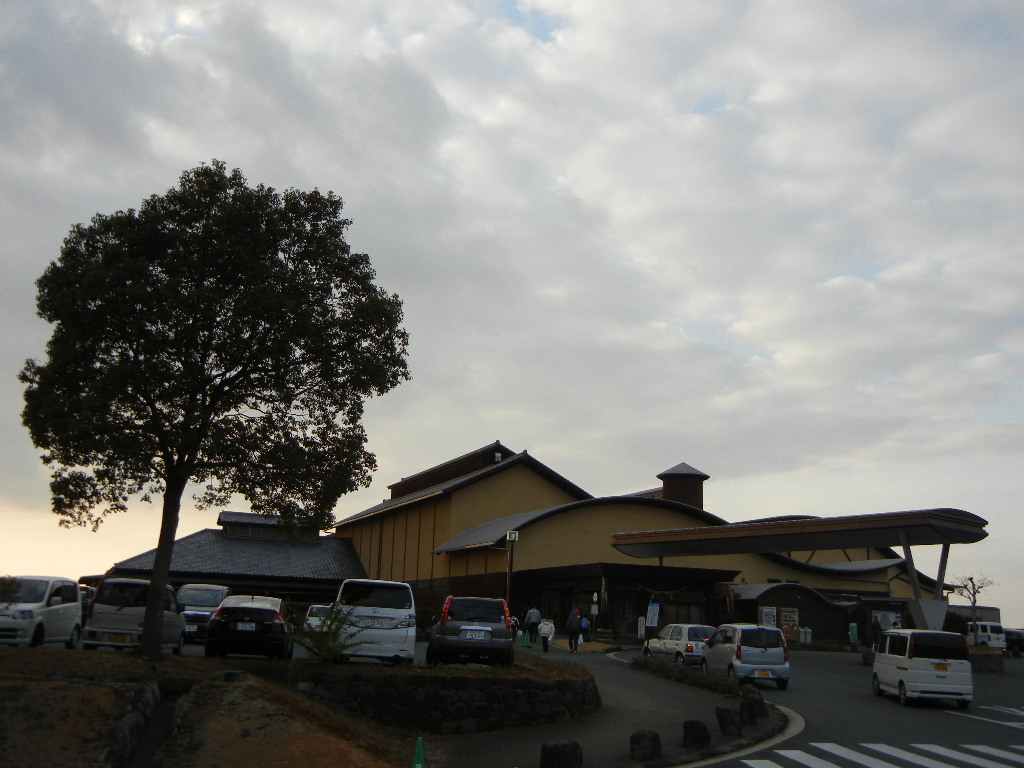 Kusamakura-Hotspring-Tensui_Tamana_Kumamoto. 熊本県玉名市にある日帰り温泉施設「草枕温泉てんすい」, Tamana.